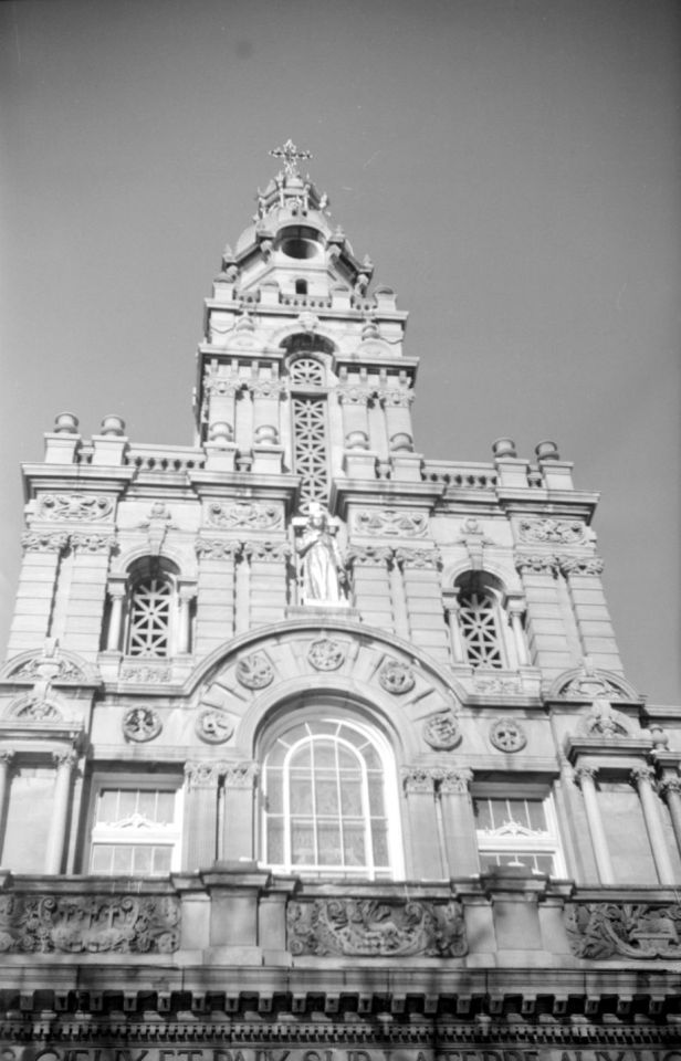 We see the Enfant Jesus Church in the rue Saint-Dominique in Montreal.